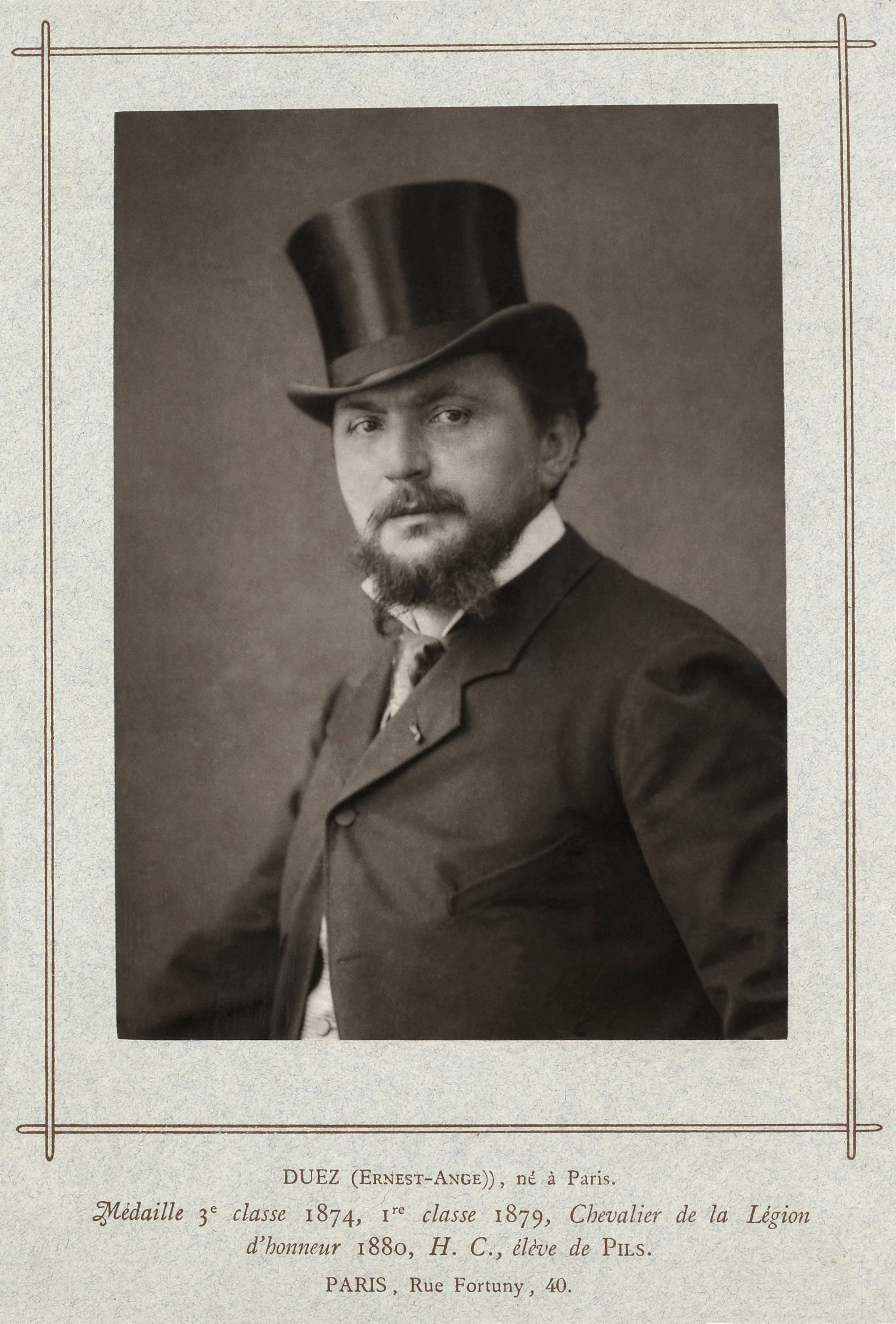 Ernest Ange Duez (1843 - 1896), french painter.